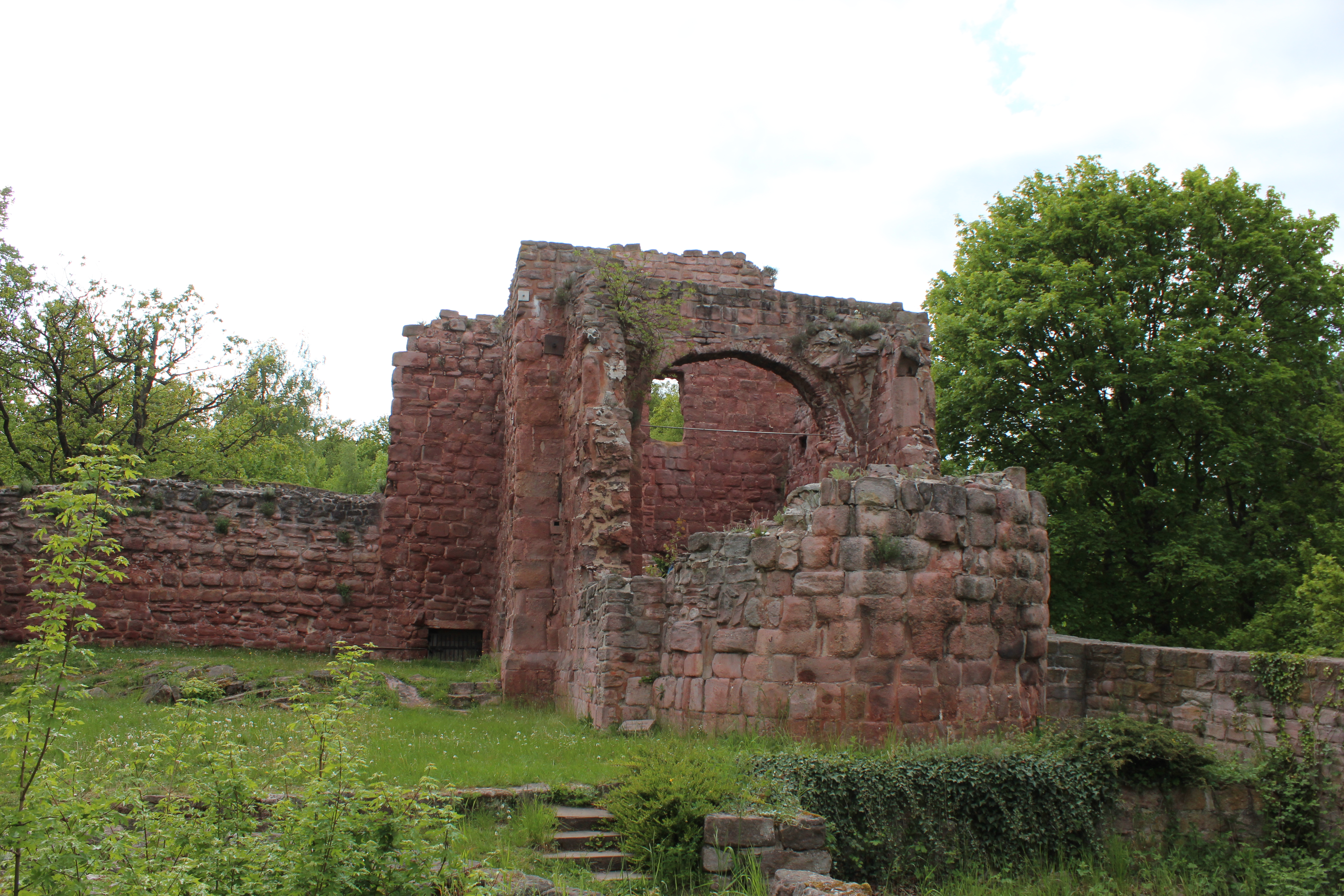 Kyffhausen Castle: Castle chapel in the lower ward